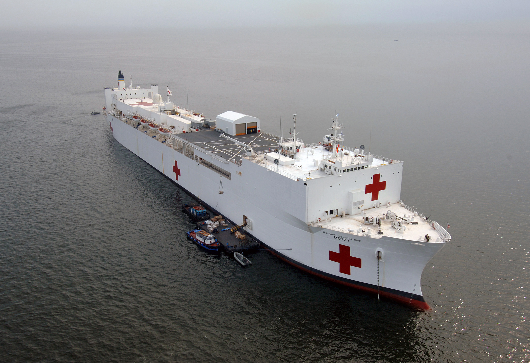 Manila, Philippines (May 23, 2006) - The Military Sealift Command (MSC) hospital ship USNS Mercy (T-AH 19) sits anchored off of the coast of Philippine capitol of Manila. Mercy's three-day port-call included several meetings with host nation officials and the ship's staff and crew. Tours of the ship's medical facilities were also made available to press and family members of the crew, who are living in the Manila area. Mercy is conducting a five-month humanitarian deployment to South and Southeast Asia, and the Pacific Islands. The medical crew aboard Mercy will provide general and ophthalmology surgery, basic medical evaluation and treatment, preventive medicine treatment, dental screenings and treatment, optometry screenings, eyewear distribution, public health training and veterinary services as requested by the host nations. Like all U.S. Naval forces Mercy is able to rapidly respond to a range of situations on short notice. Mercy is uniquely capable of supporting medical and humanitarian assistance needs and is configured with special medical equipment and a robust multi-specialized medical team who can provide a range of services ashore as well as aboard the ship. The medical staff is augmented with an assistance crew, many of whom are part of non-governmental organizations that have significant medical capabilities. U.S. Navy photo by Chief Photographer's Mate Edward G. Martens (RELEASED)